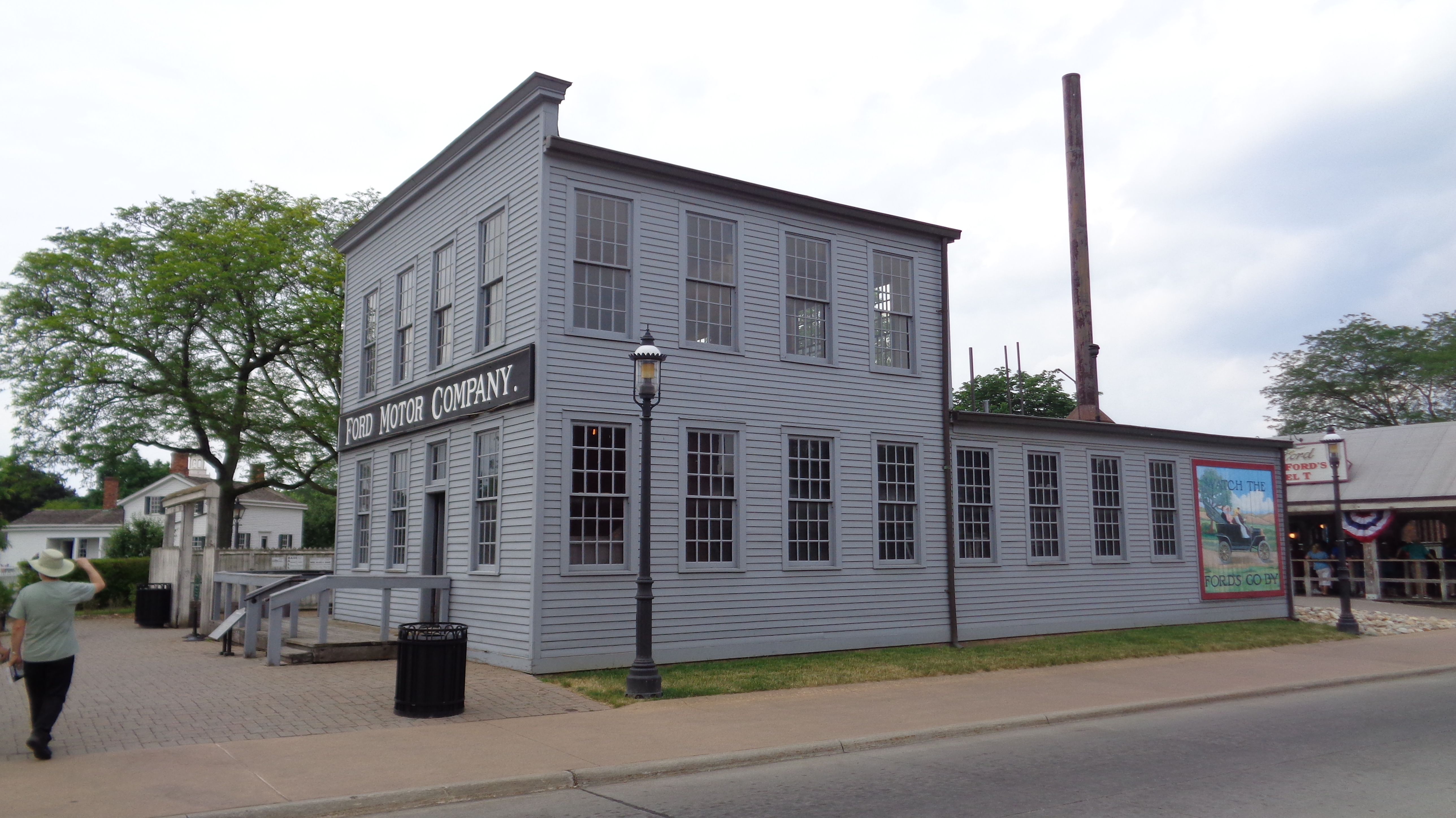 A replica of the Ford Mack Avenue Plant, one-fourth the size of the original, at Greenfield Village in Dearborn, Michigan. The original Mack Avenue Plant in Detroit, Michigan, was a wagon manufacturing shop rented between 1903 and 1904 by the Ford Motor Company, and was where its first cars were assembled.